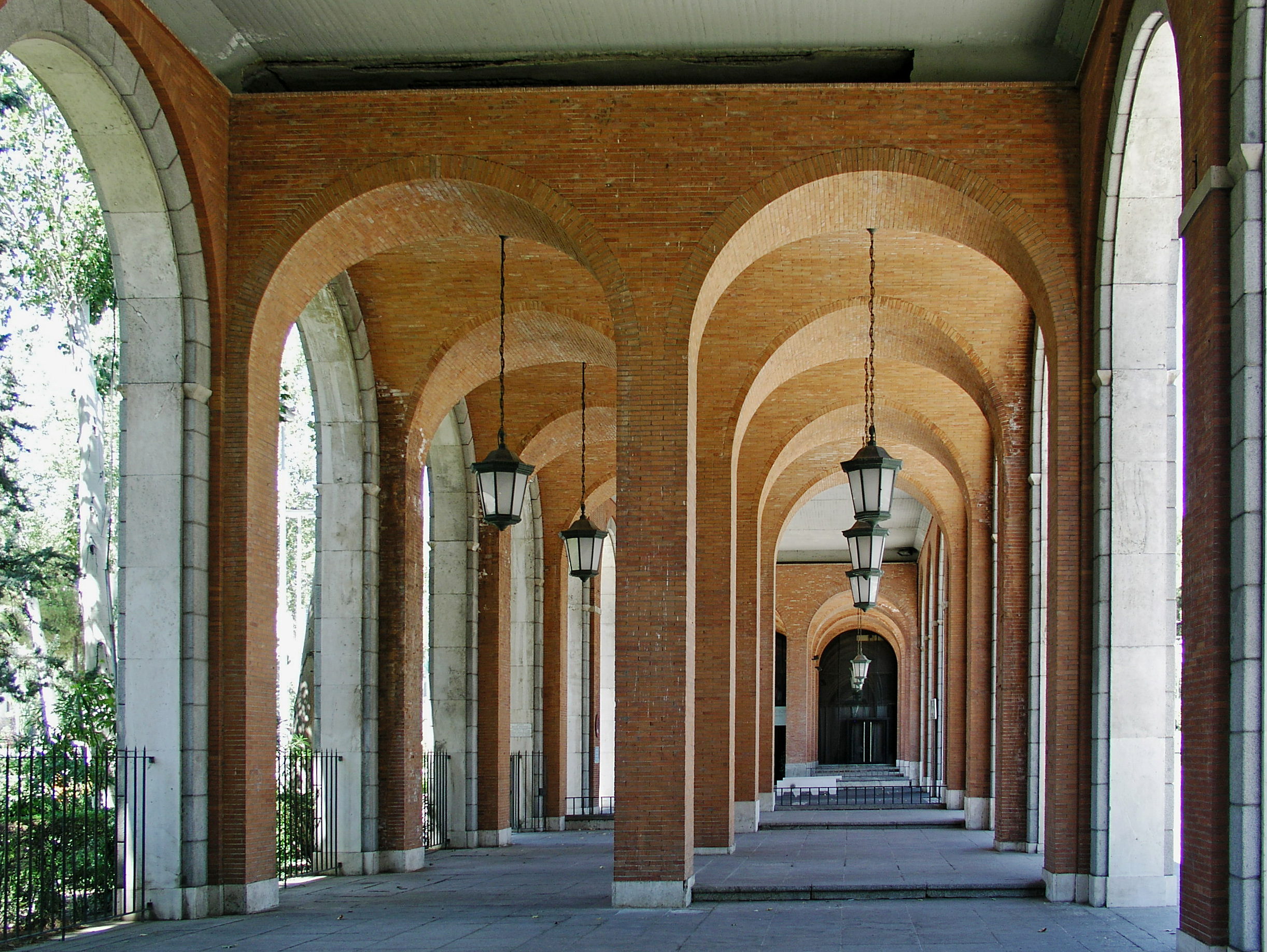 Nuevos ministerios, Madrid, Spain. Arcade.